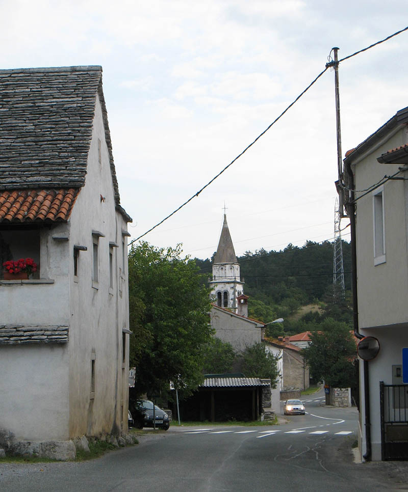 Houses and church in Divača, Slovenia